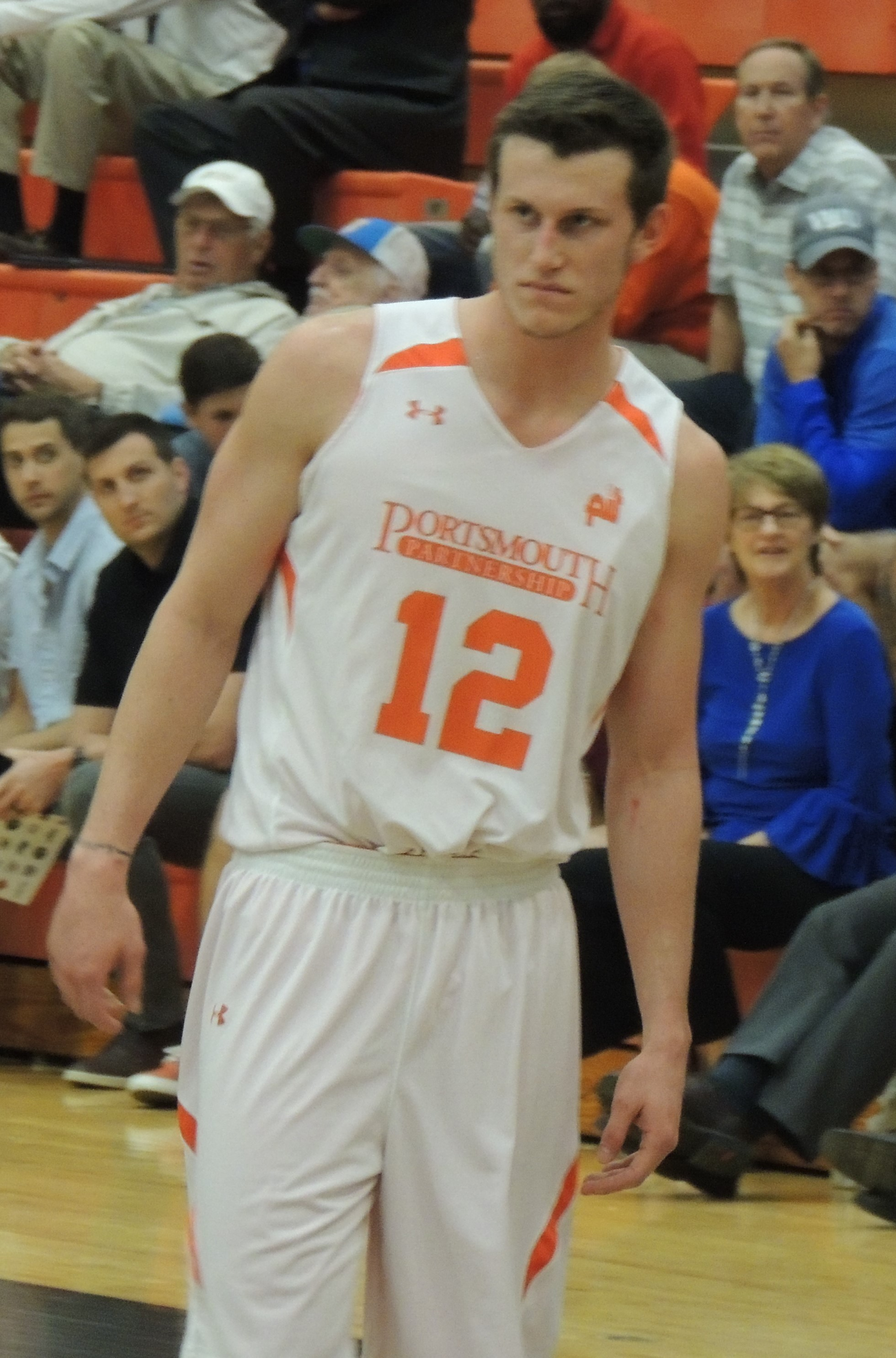 American basketball player Garrison Mathews from Lipscomb University at the 2019 Portsmouth Invitational Tournament.